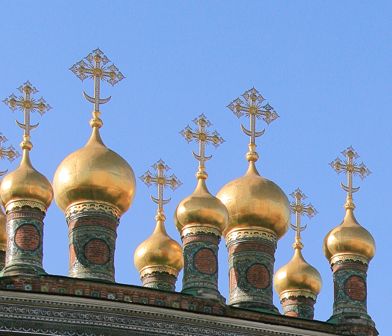 Domed roof over the Terem Palace churches, Moscow Kremlin, crowned by Cross over Crescent variation of the Orthodox Cross; constructed by Osip Startsev in Muscovite Baroque style.